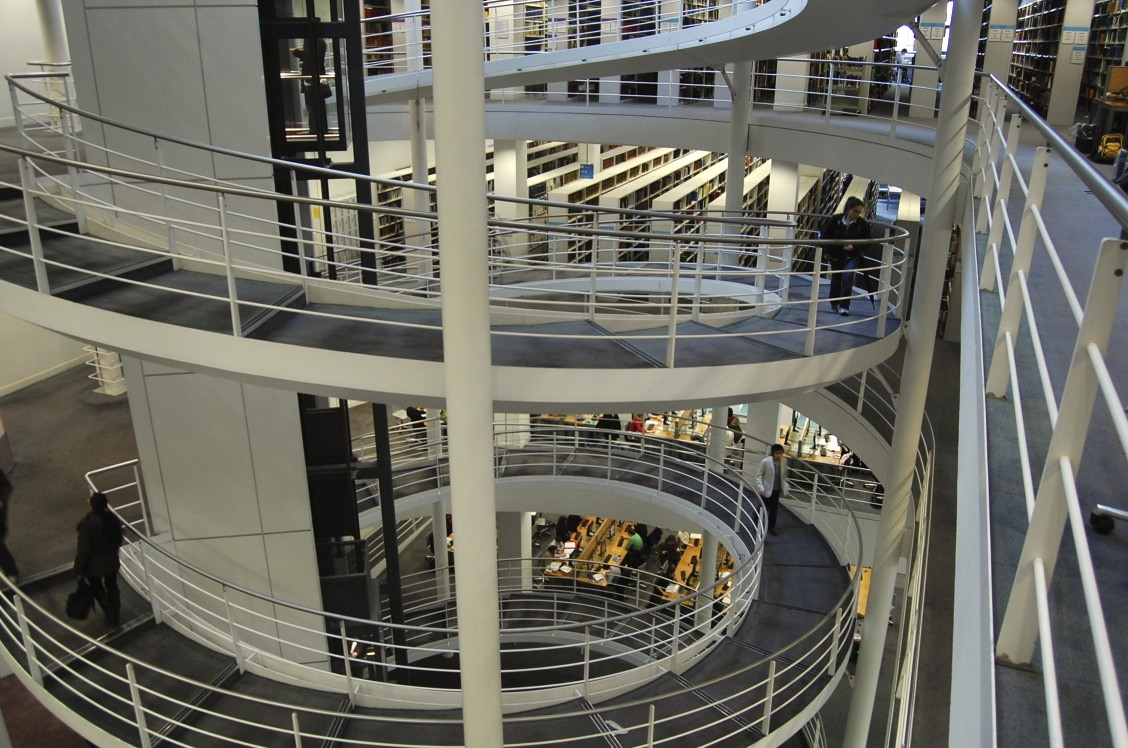 LSE Library, The British Library of Political and Economic Science